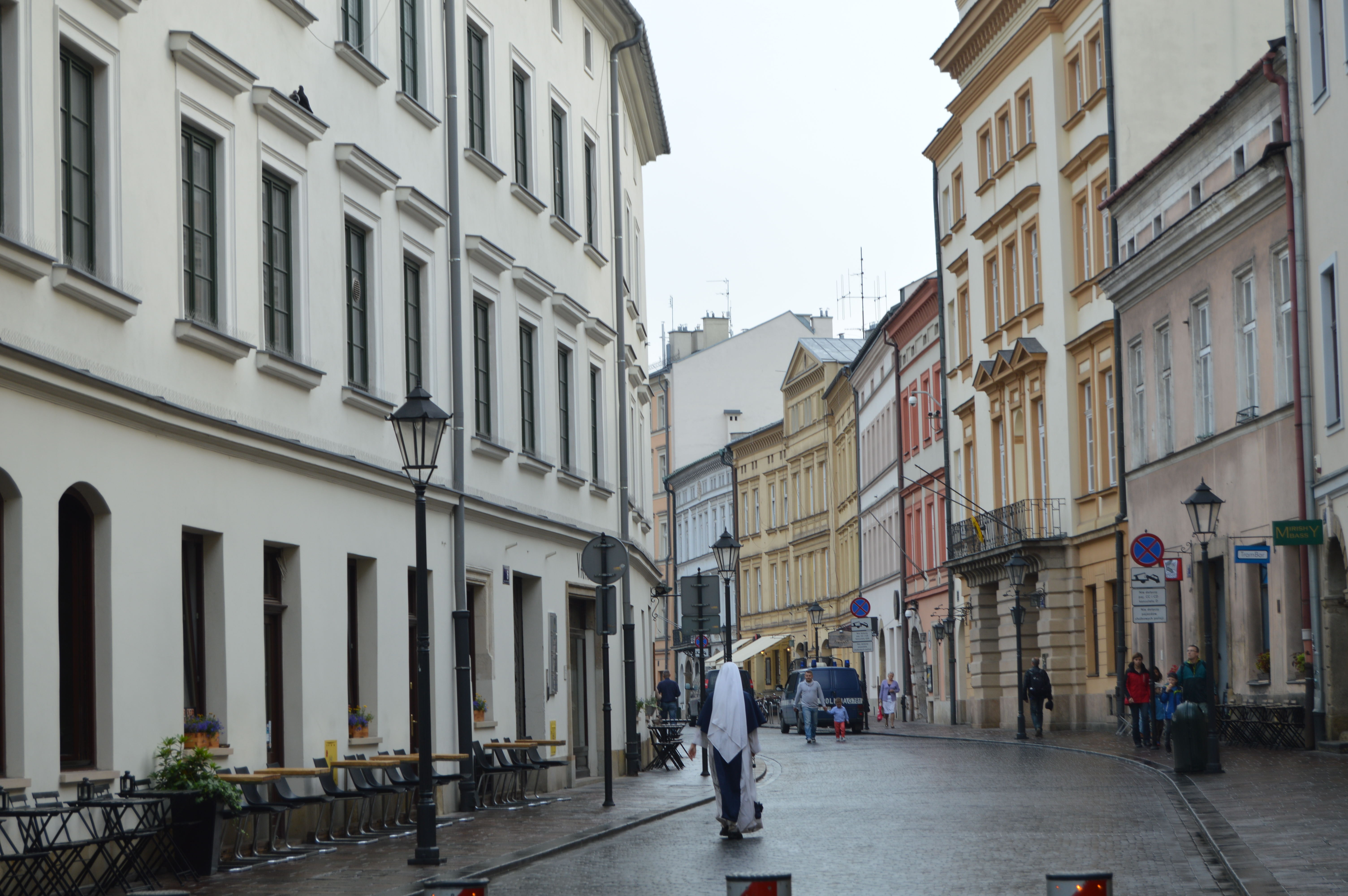 View towards the consulates.